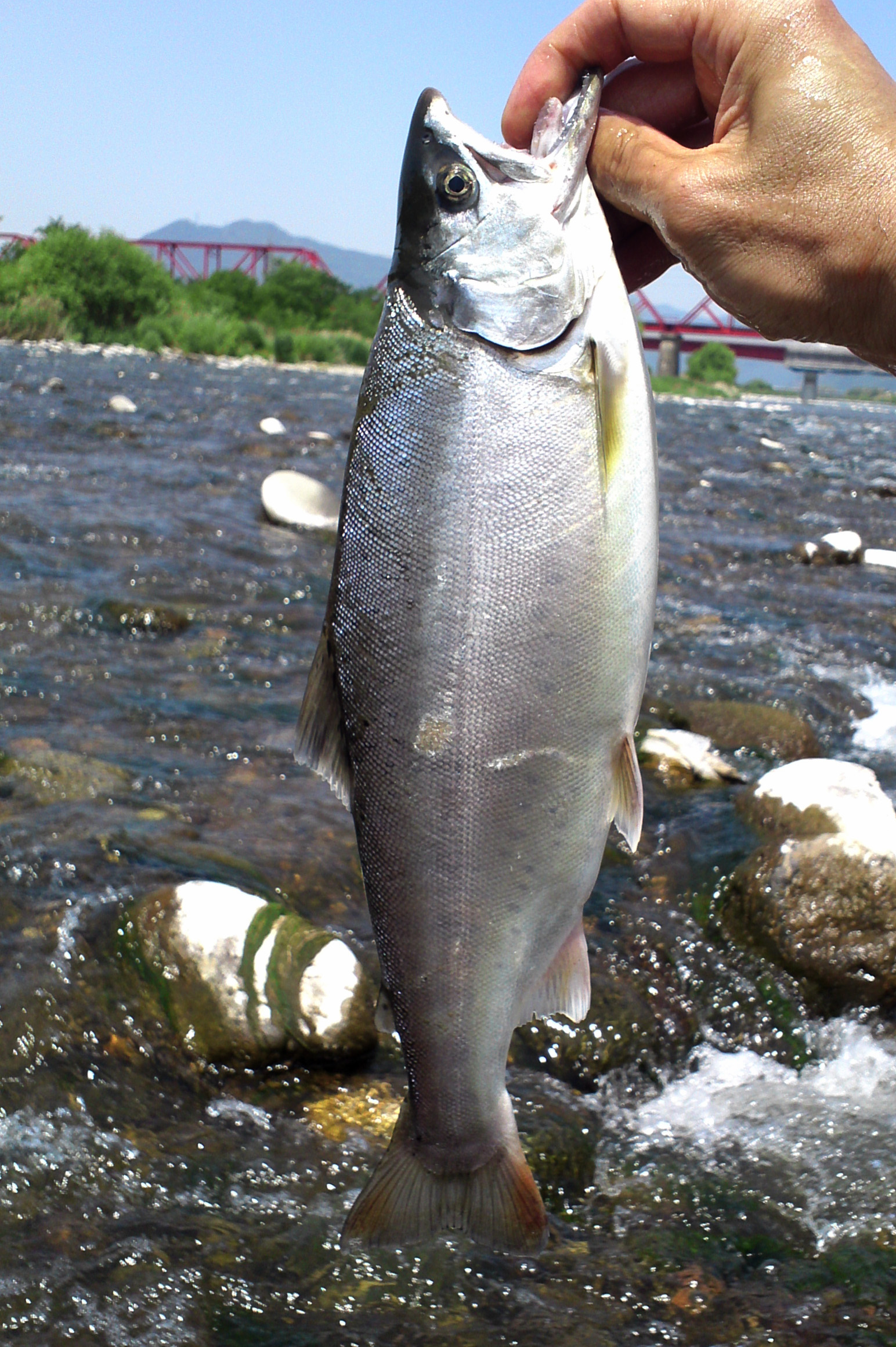 Oncorhynchus masou masou The individual of a river remains type scalpel. (Capture place, the Nagano Chikuma River)